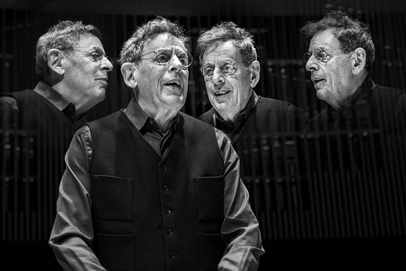 Philip Glass at a concert and a premiere of a new piano piece in Aarhus Denmark 2017